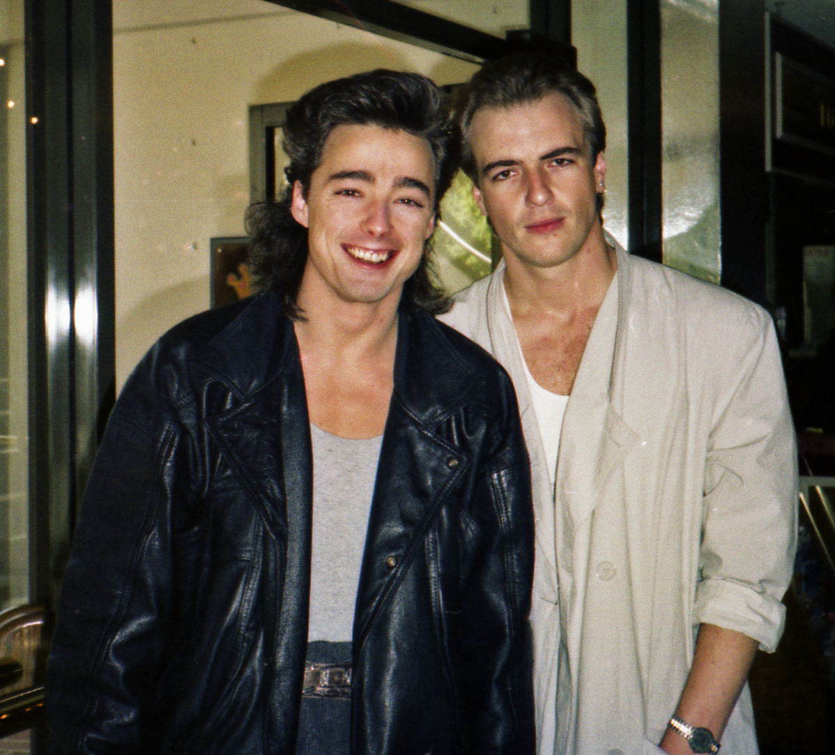 Richard Drummie and Peter Cox of Go West in San Francisco, California - October 1985